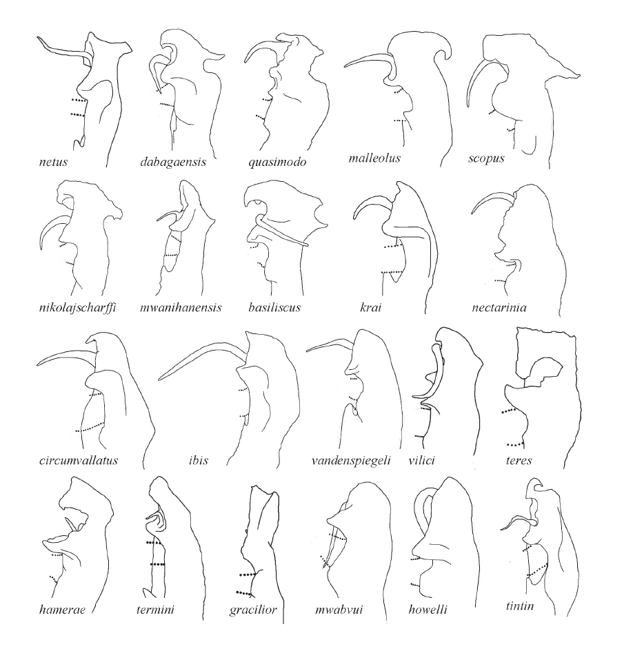 Chaleponcus spp., outline of coxite of left gonopod, posterior view. (The 'transverse' plane of the gonopod is usually slightly at angles with the exact transverse plane of the millipede, so it may be necessary to tilt the gonopod slightly in order to obtain the view shown on the drawings.) The stippled lines indicate the place where the telopodital basomere emerges from the coxal cavity. Not to scale.